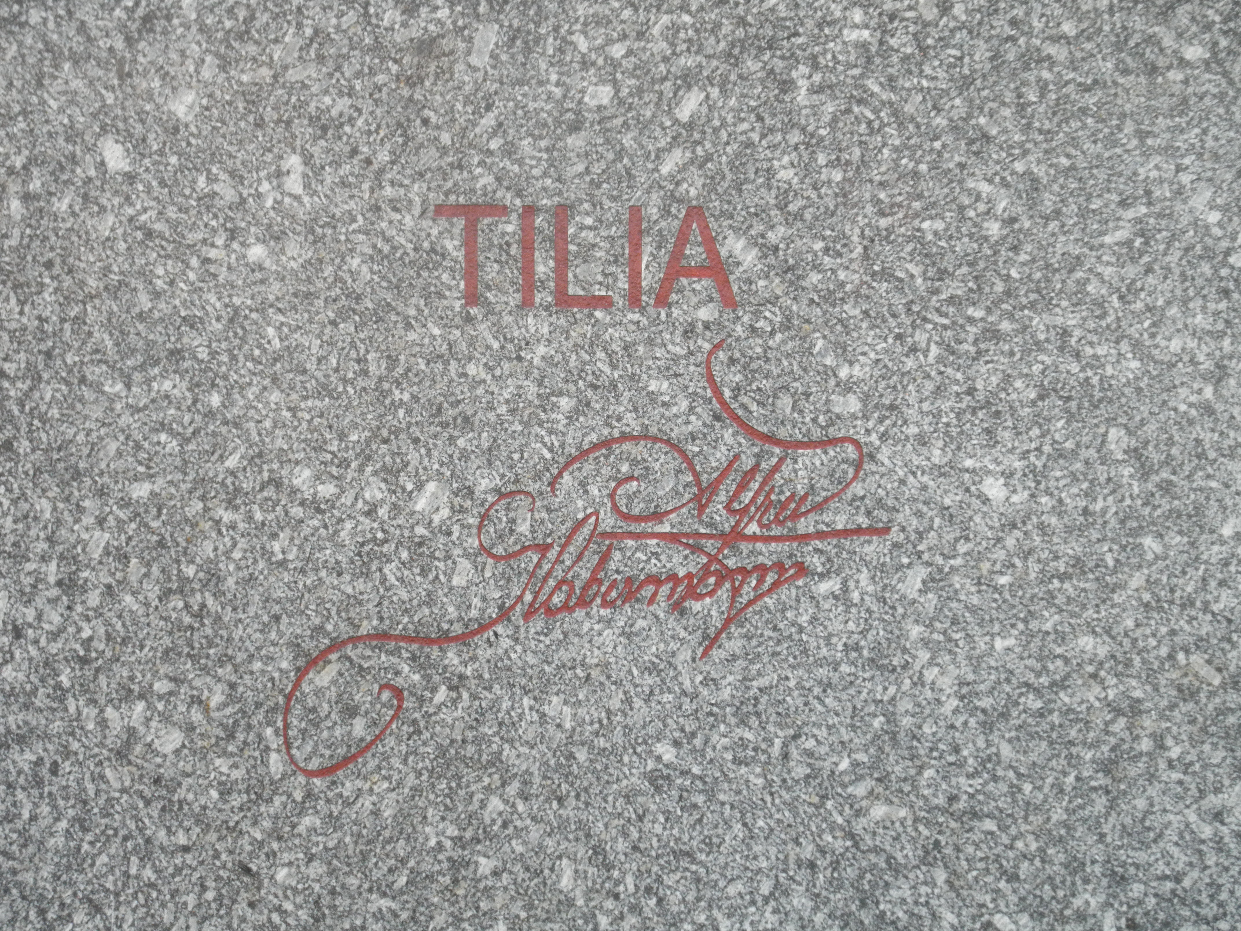 Detail of the pedestal for the sculpture Tilia by Michal Gabriel in Alfred Habermann, Czech Republic from 2009. It shows sculpture name and author's signature.